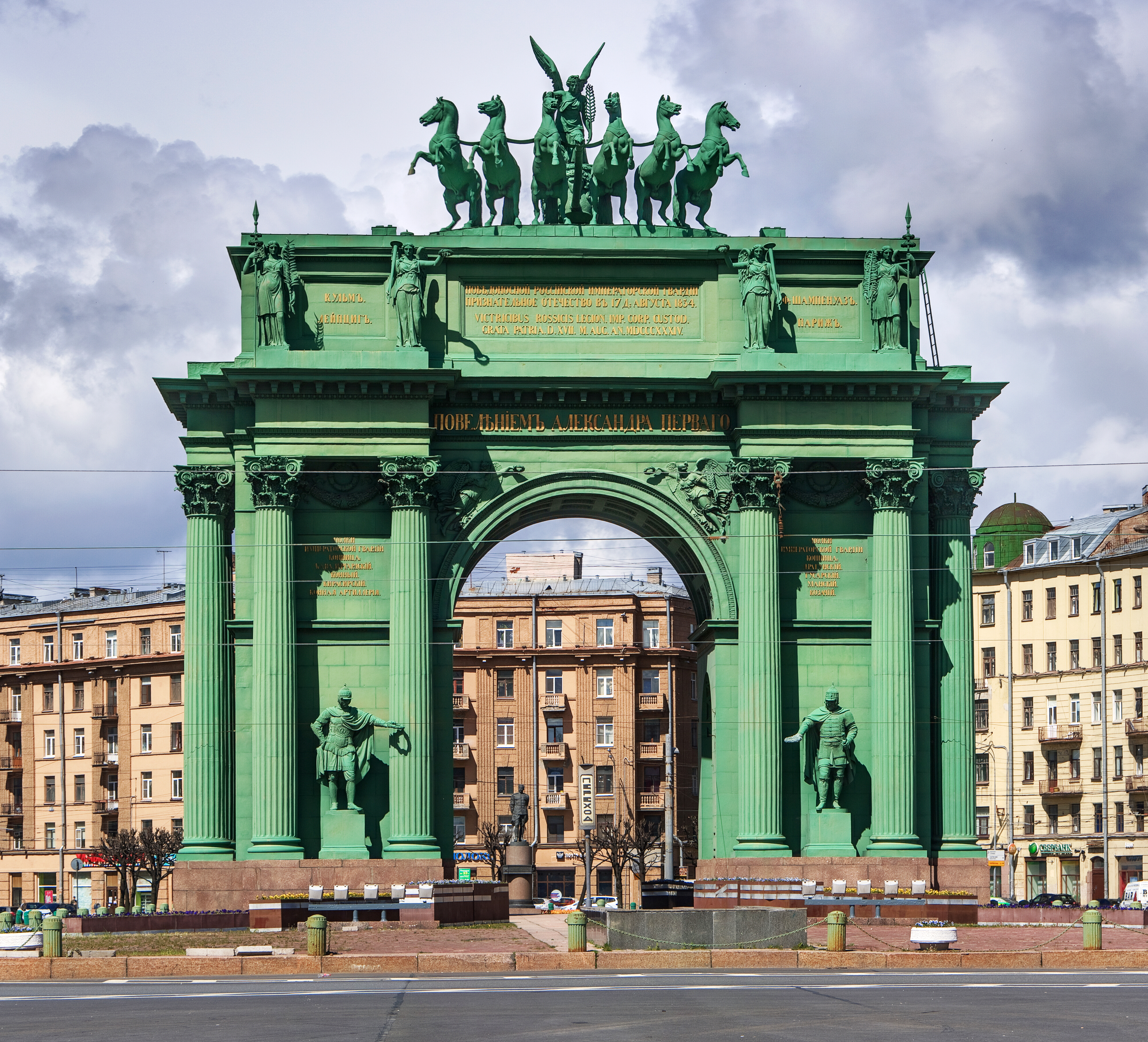 Narva Triumphal Gate, Stachek square 1, Saint Petersburg